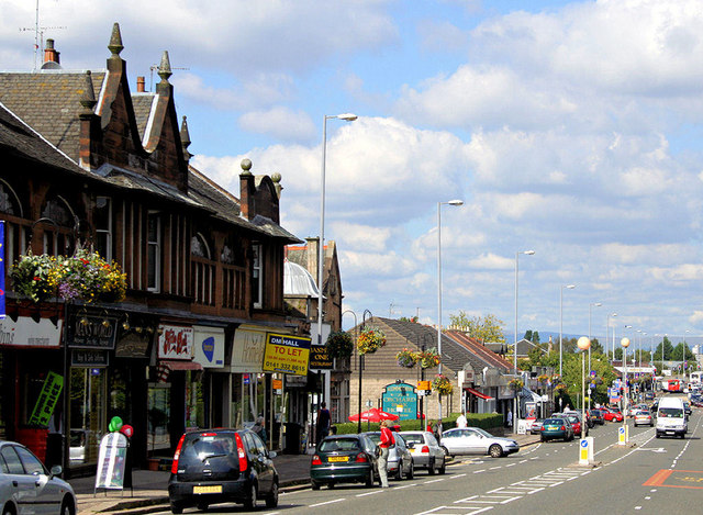 Giffnock, East Renfrewshire. The busy Ayr Road in this popular district.